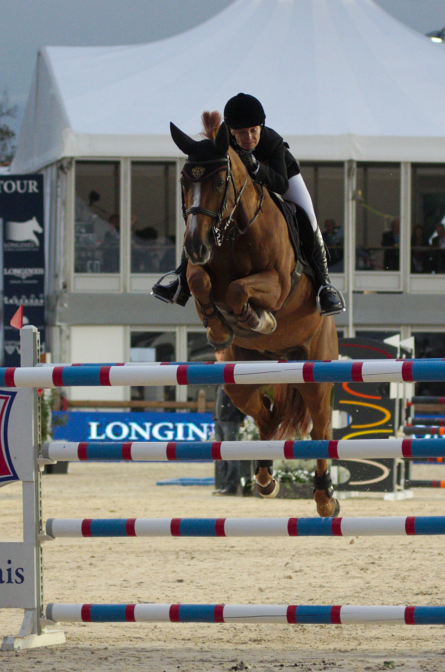 2013 Longines Global Champions - Lausanne - 14-09-2013 - Edwina Tops-Alexander et Cevo Itot du Chateau